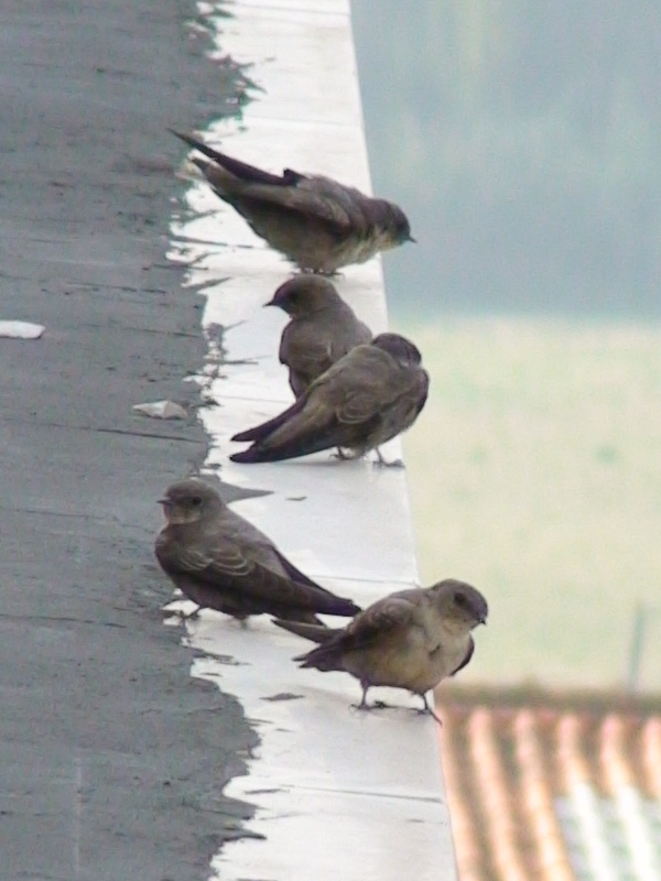 Crag Martin Ptyonoprogne rupestris (syn. Hirundo rupestris) on building roof in Alcobaça, Portugal.